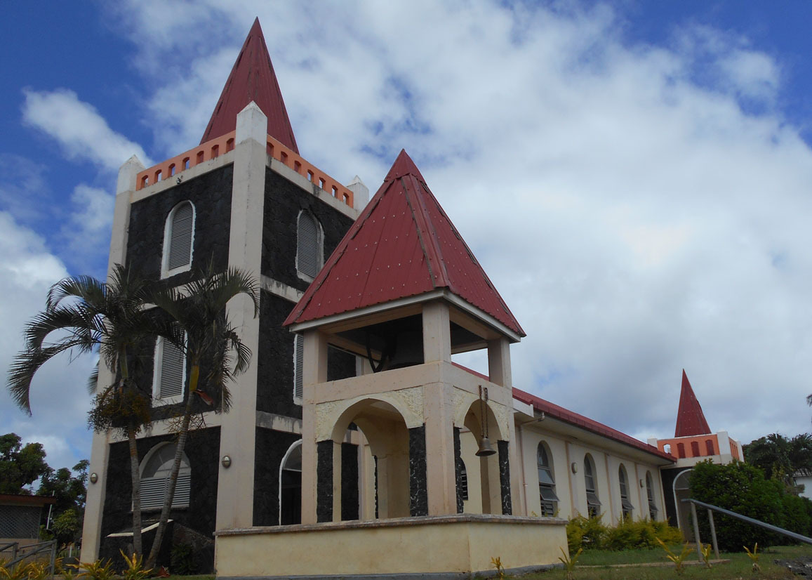 Tonga